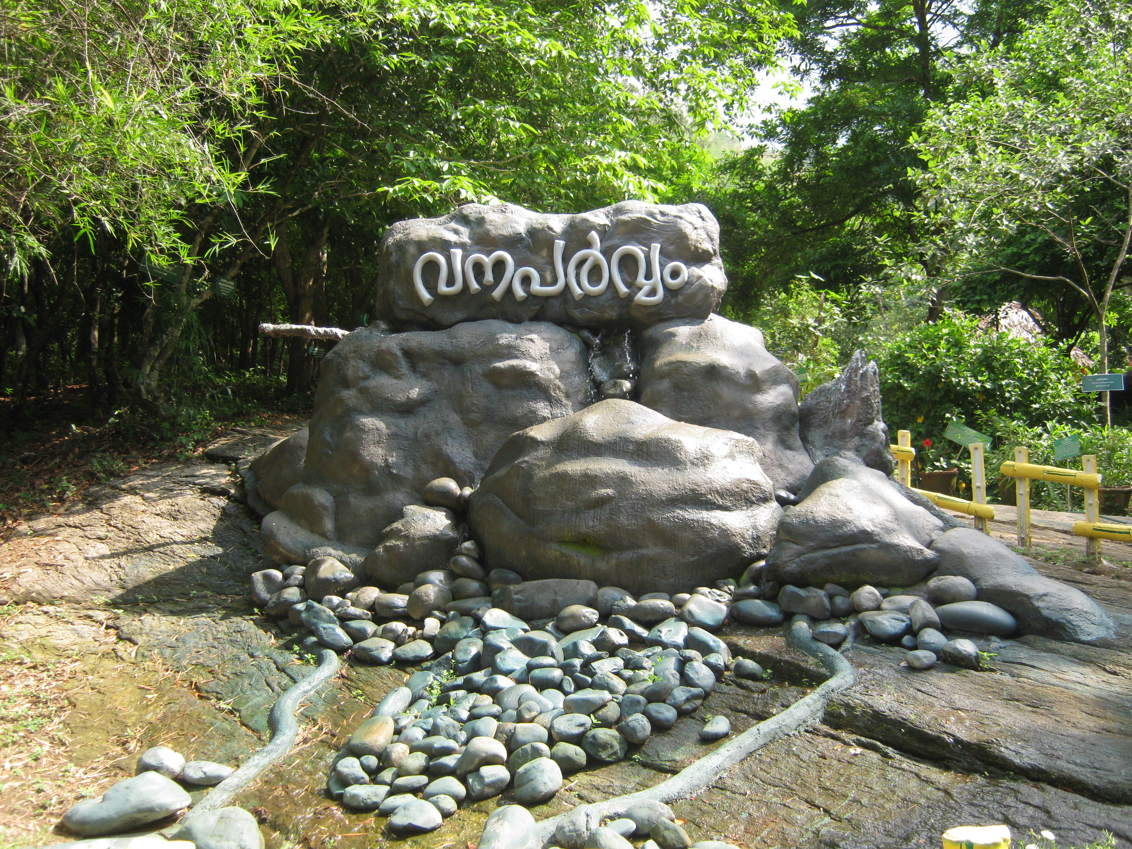 കോഴിക്കോട് ജില്ലയിലെ ഈങ്ങപ്പുഴയില്‍ സ്ഥിതി ചെയ്യുന്ന ജൈവവൈവിധ്യ ഉദ്യാനമാണ് കാക്കവയല്‍ വനപർവ്വം.